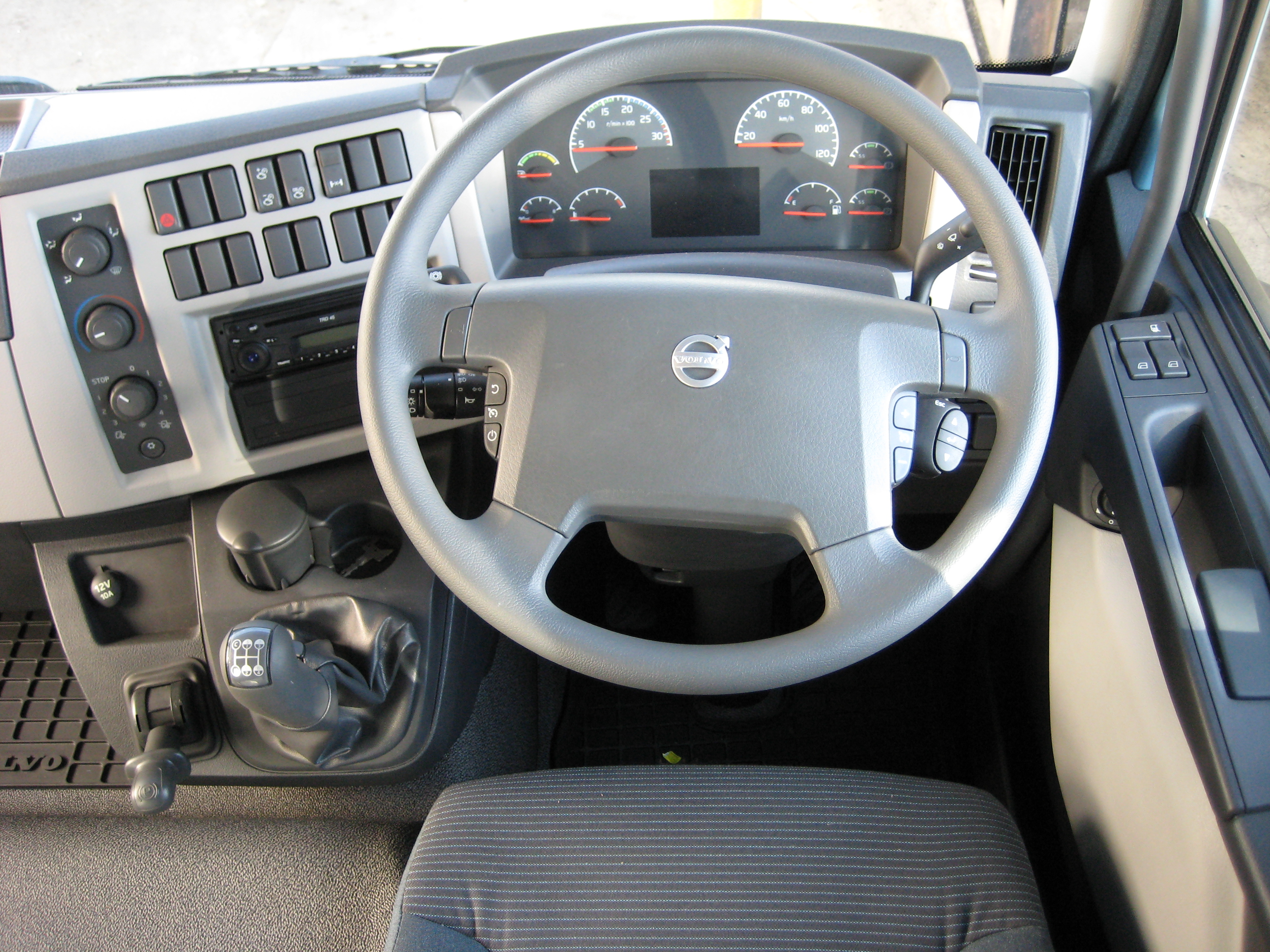 Inside of Volvo FL 2008 model